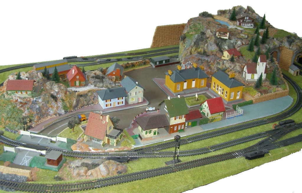 A self-made railway wunderland, HO scale.